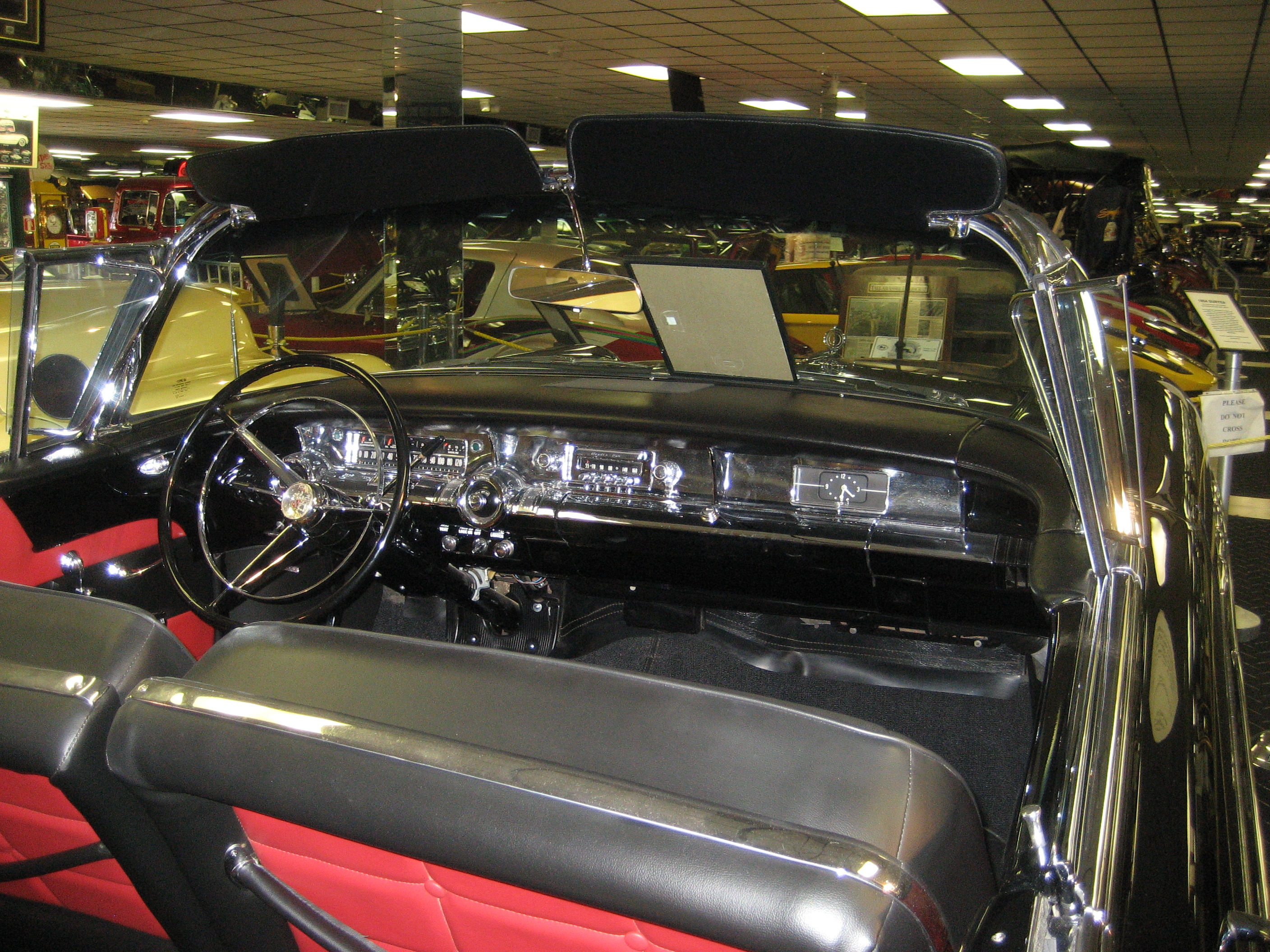 1957 Buick Roadmaster Series 70 Model 76C Convertable on display at Tallahassee Automobile Museum.